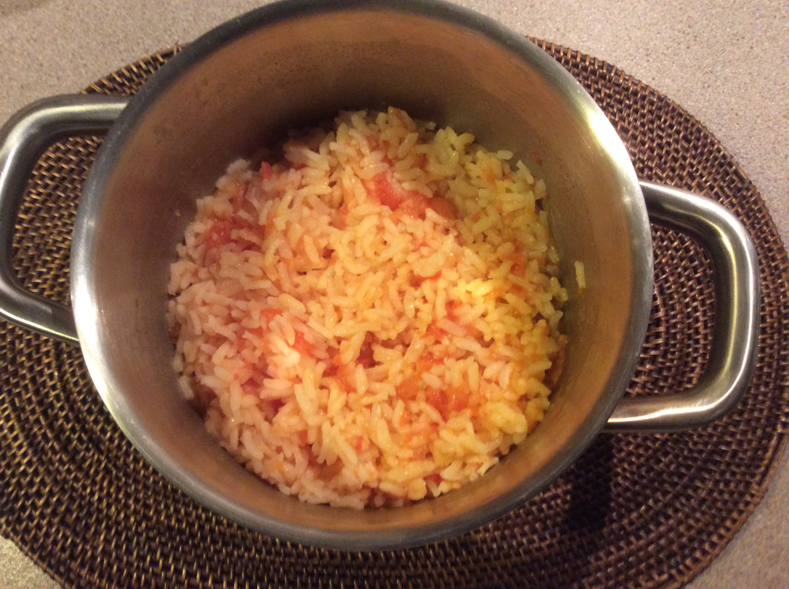 Domatesli pilav (Pilaf with tomato, summertime rice dish of the Turkish cuisine) from Turkey.